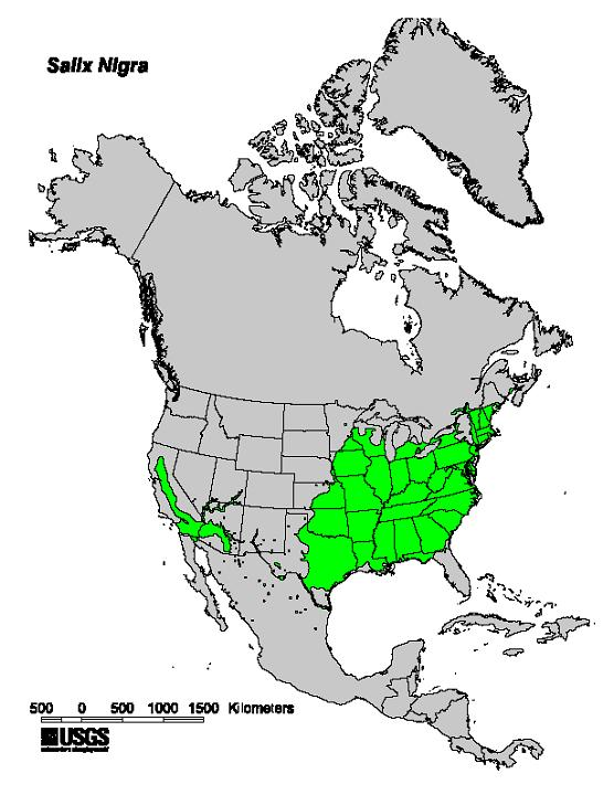 Natural range of Black Willow (Salix nigra). Digital representation of "Atlas of United States Trees" by Elbert L. Little, Jr. 1999. U.S. Geological Survey. [1]